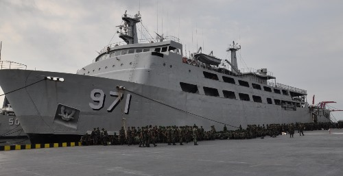 Indonesian Navy Multi-role support ship (troop transport) KRI Tanjung Kambani (971) during Pamtas RI-Papua Nugini Operation.